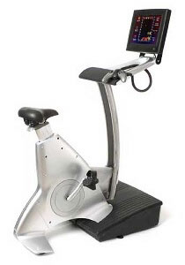 PR Photo of the Exertris Interactive Bike for press use